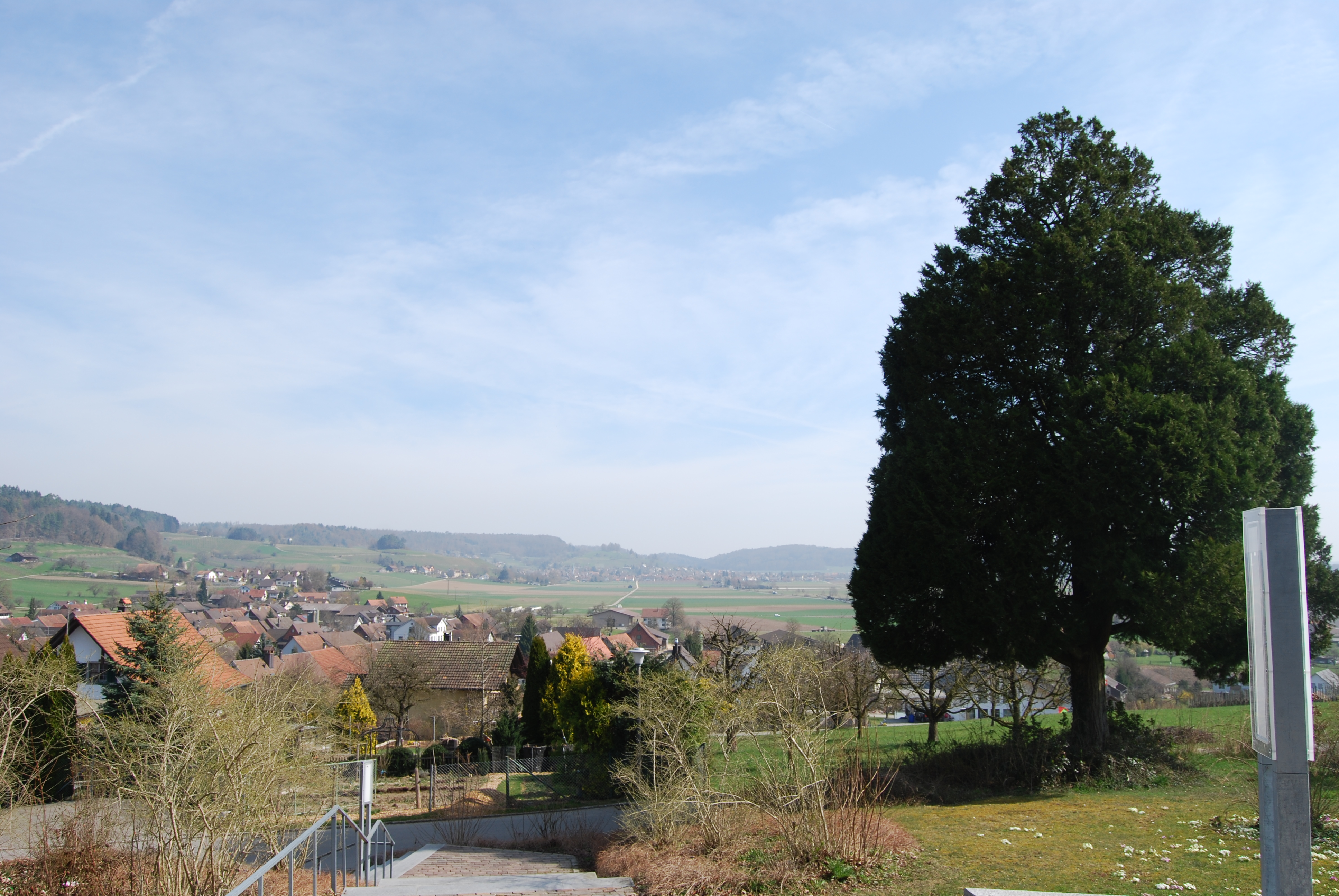 Wil ZH and in the back Rafz, canton of Zürich, Switzerland